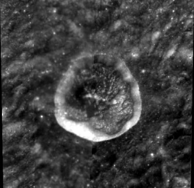 Steklov lunar crater - Clementine image.